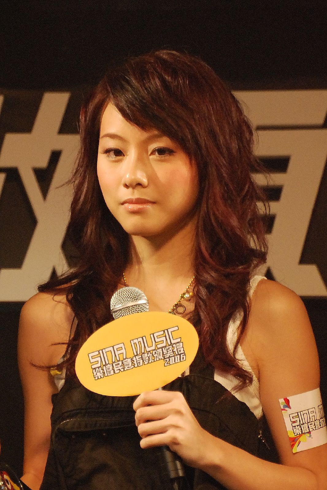 Stephy Tang at SINA Music樂壇民意指數頒獎禮 2006 (hosted on 29 January 2007)Stephy